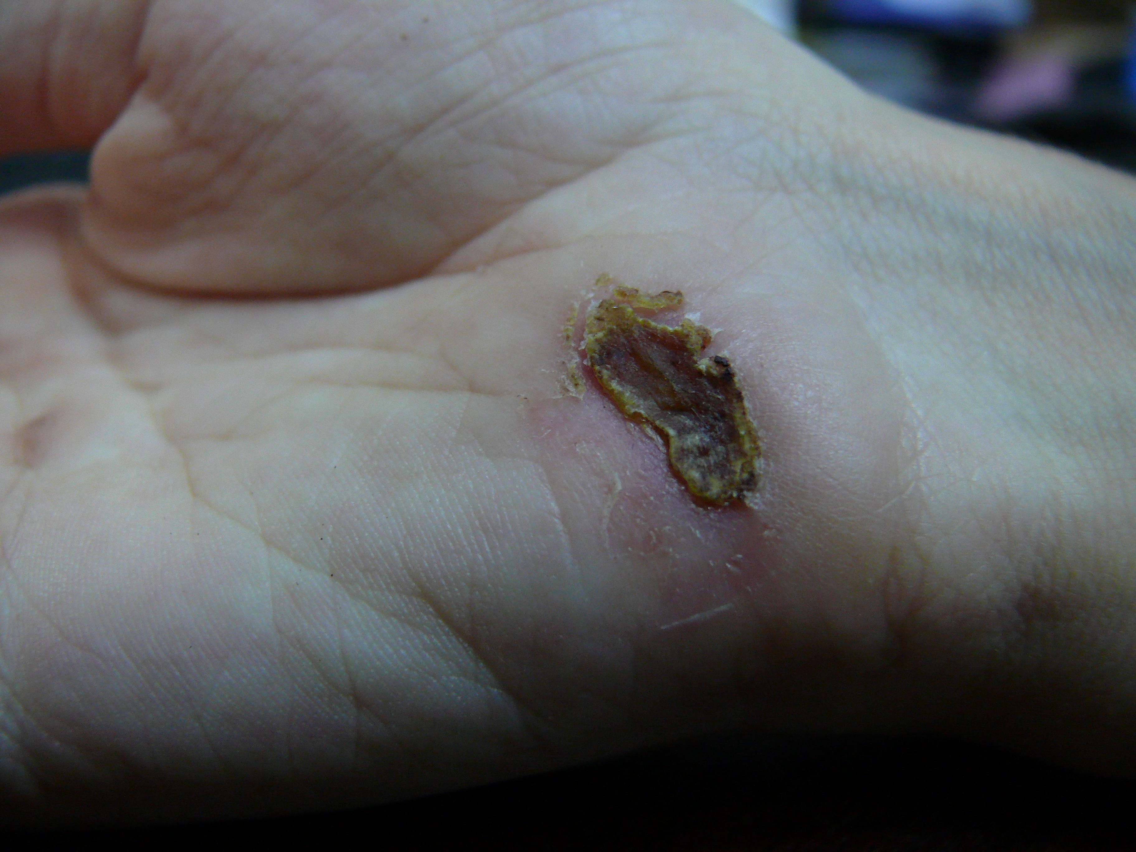 Wound on palm of hand 14 days after falling off a bike onto concrete. Previous photos: Day 1: Image:Wound on palm of hand.jpg Day 2: Image:Wound on palm of hand - day 2.jpg Day 3: Image:Wound on palm of hand - day 3.jpg Day 4: Image:Wound on palm of hand - day 4.jpg Day 5: Image:Wound on palm of hand - day 5.jpg Day 6: Image:Wound on palm of hand - day 6.jpg Day 7: Image:Wound on palm of hand - day 7.jpg Day 8: Image:Wound on palm of hand - day 8.jpg Day 9: Image:Wound on palm of hand - day 9.jpg Day 10: Image:Wound on palm of hand - day 10.jpg Day 11: Image:Wound on palm of hand - day 11.jpg Day 12: Image:Wound on palm of hand - day 12.jpg Day 13: Image:Wound on palm of hand - day 13.jpg Following photos: Day 15: Image:Wound on palm of hand - day 15.jpg Day 16: Image:Wound on palm of hand - day 16.jpg Day 17: Image:Wound on palm of hand - day 17.jpg Day 18: Image:Wound on palm of hand - day 18.jpg Day 19: Image:Wound on palm of hand - day 19.jpg Day 20: Image:Wound on palm of hand - day 20.jpg